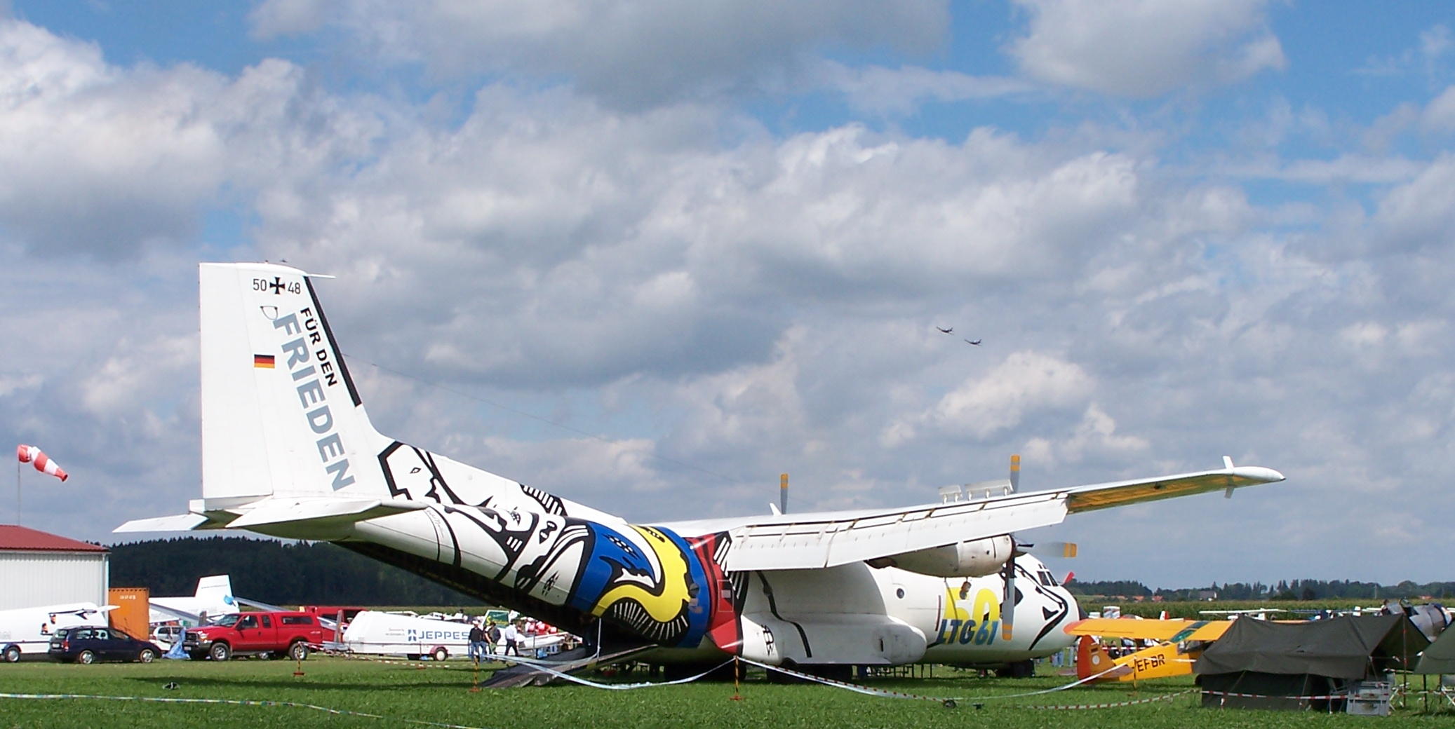 Transall C-160 EDMT 20080719